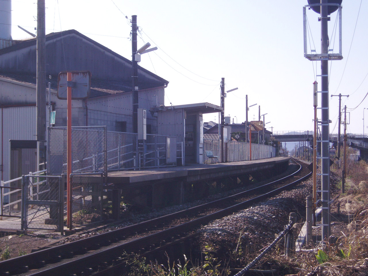 Shikoku Railway Dosan Line Yamadanishimachi Station